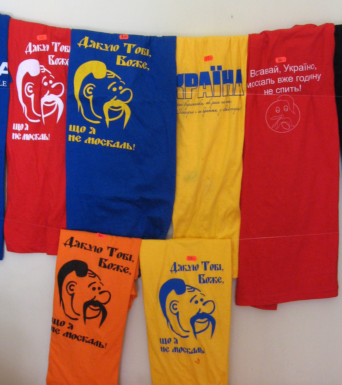 T-shirts with Ukrainian nationalist`s slogans